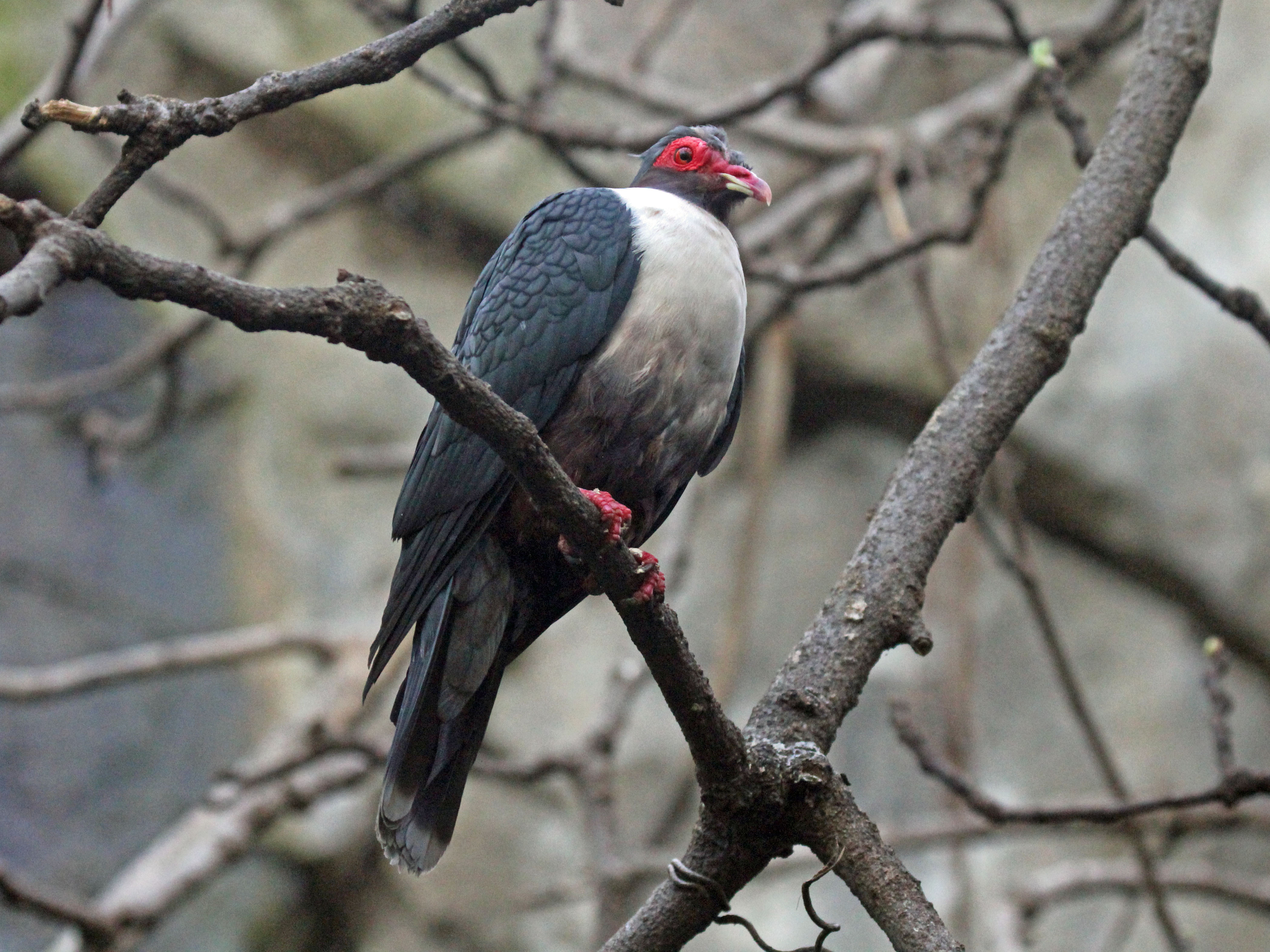 Papuan Mountain Pigeon (Gymnophaps albertisii) - San Diego Zoo, California